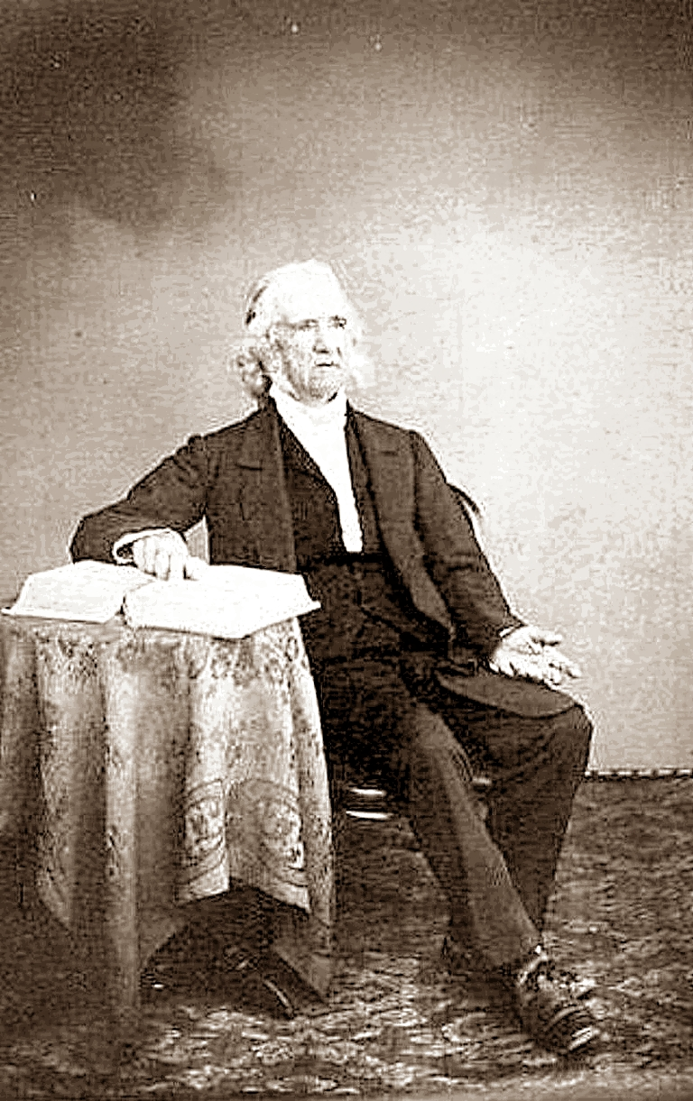 Photo by Dr. Henri Abraham César Malan.